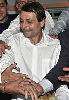 Former Italian member of Armed Proletarians for Communism Cesare Battisti during a meeting with representatives from a human rights commission and members of Brazilian Parliament at Papuda penitentiary in Brasilia .